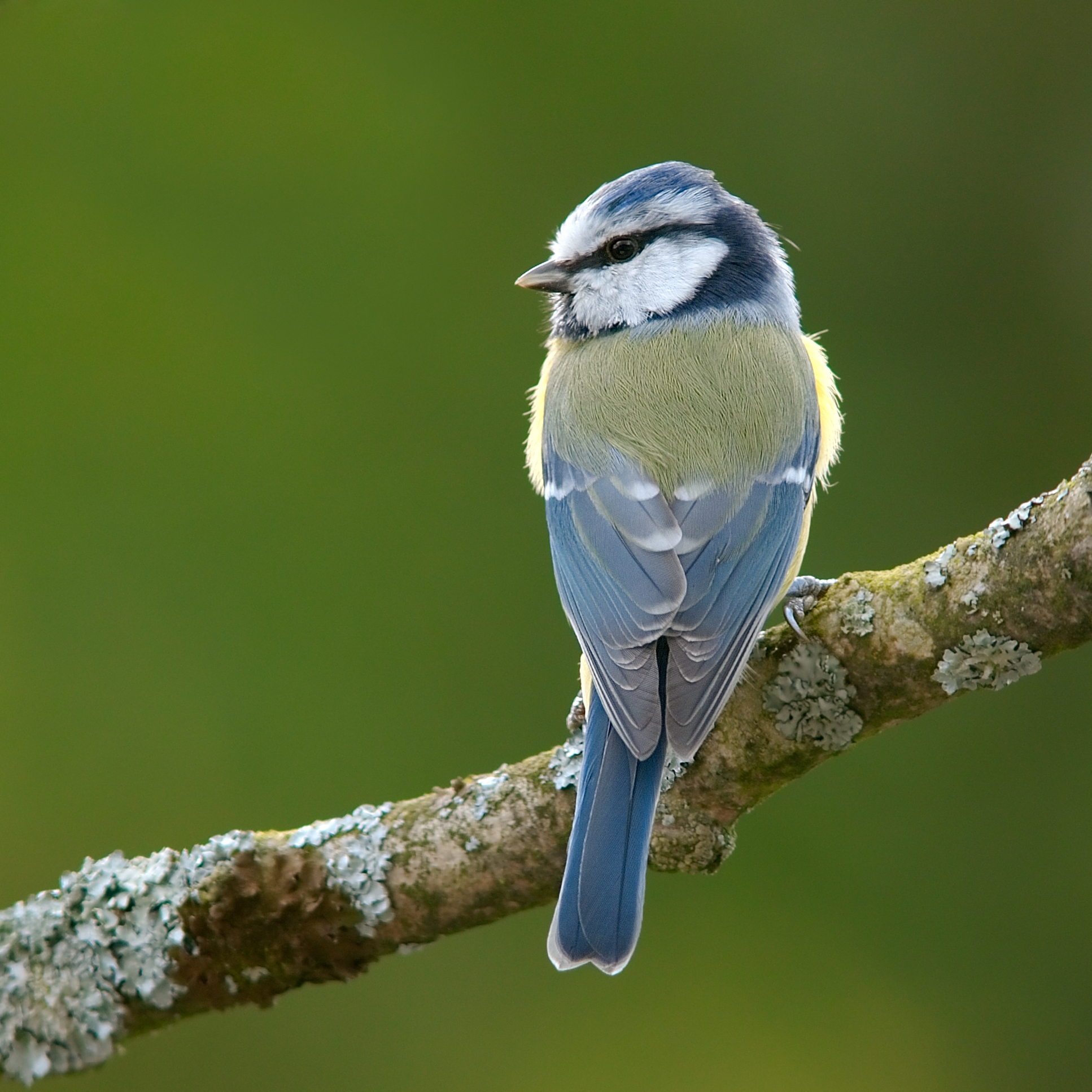 Blue Tit, (Cyanistes caeruleus) It's an image in "contre-jour" (against the light). The sun is lightening the front of the bird. I work with "raw" to lighten the darker parts of the "contre-jour"